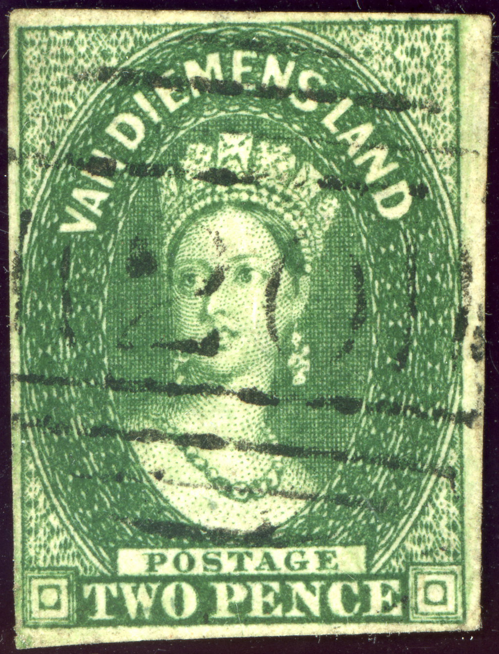 1855 2 pence Van Diemensland SG16